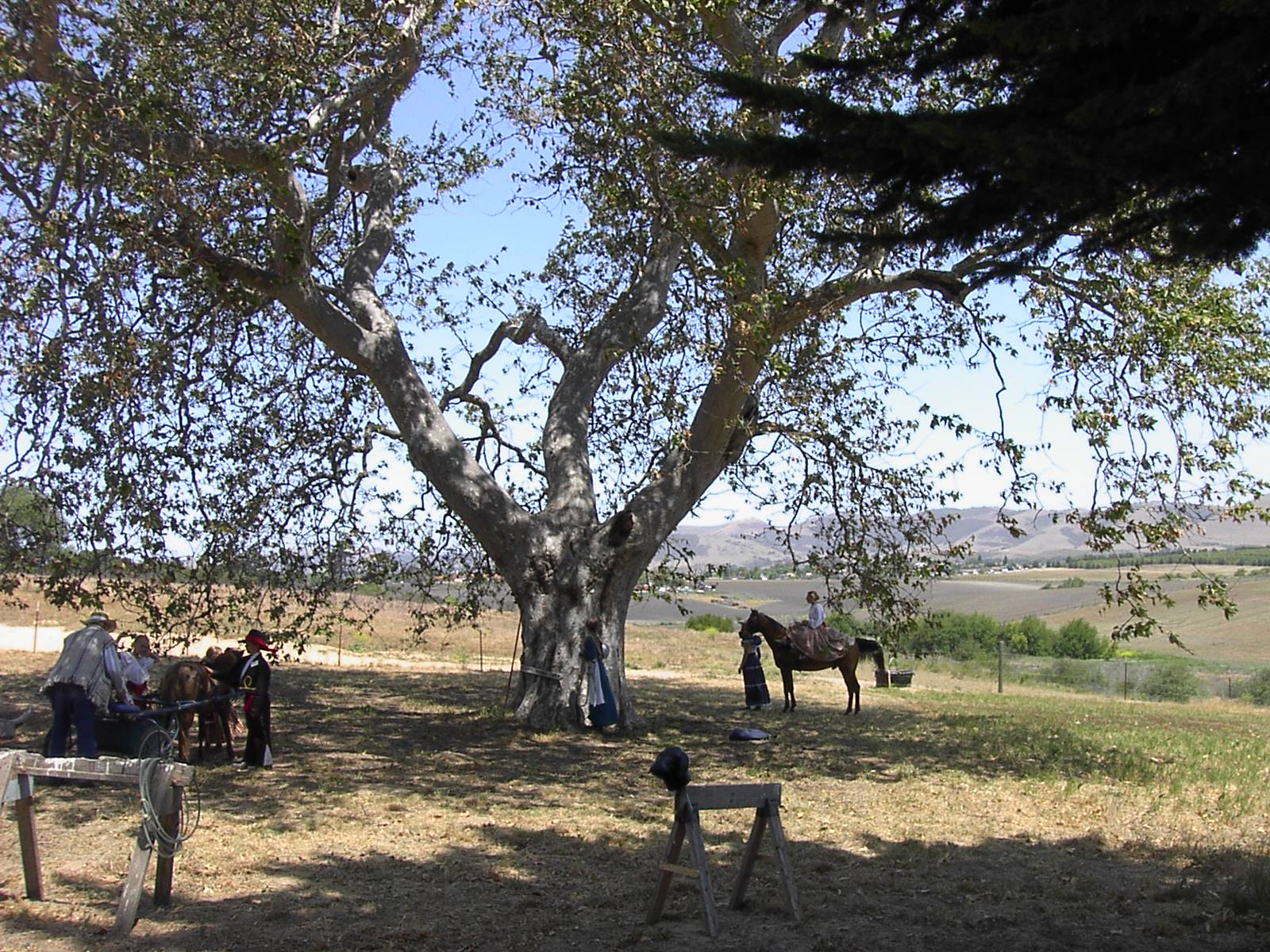 The Capt. Dana Tree at the Dana Adobe, Nipomo, California. Taken during the Rancho Nipomo Heritage Day celebration May 19, 2007. The town of Nipomo is in the background.